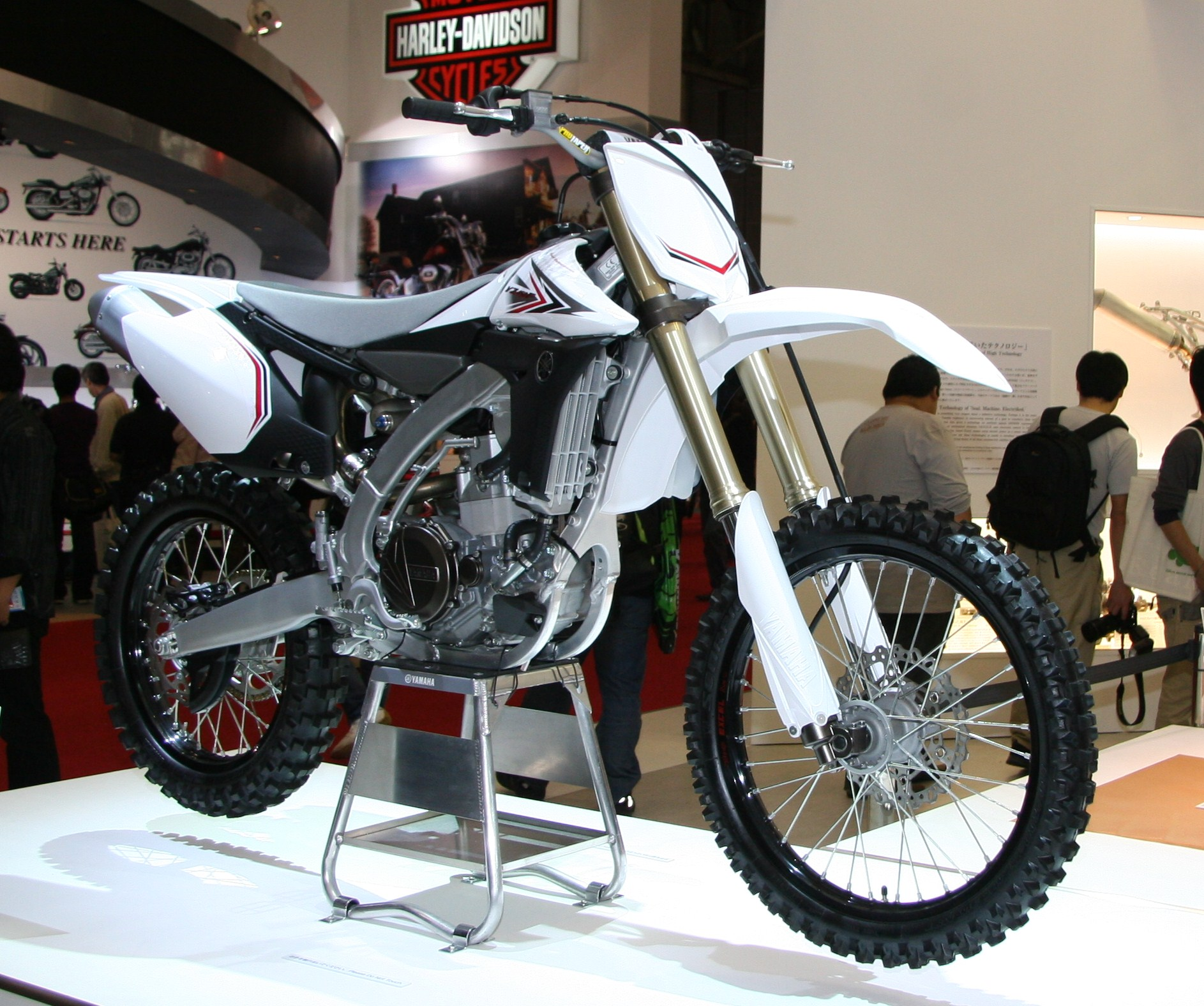 2012 Yamaha YZ450F